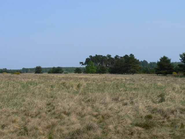 Breckland Heath/Grassland Ecosystem This area is a rare example of a Southern England semi-natural heath habitat, preserved because MOD training in the area limited agriculture, which would have destroyed this rare habitat type. The Breckland has a semi-continental climate (this region is one of the driest in Britain), so shares many plant species in common with mainlan Europe. Species distribution is governed by management and soil type; alternating chalk and acidic sandy soils over a short distance causes alternating zonation of grassland and heather strips.